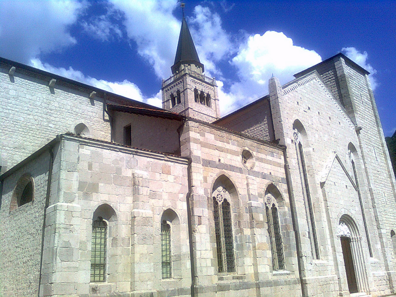 Cathedral Sant'Andrea Apostolo in Venzone, Italy.